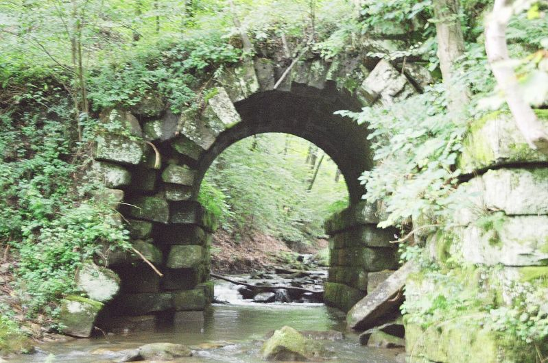 Old train bridge in Kennerdell, Pennsylvania. This old train bridge is now a bike trail overlooking the Allegheny river near Kennerdell, Pennsylvania.